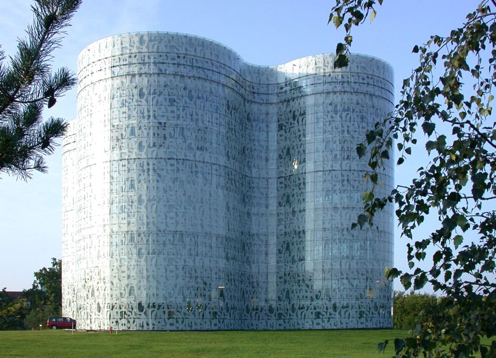 information communication and multimedia center Cottbus (IKMZ)